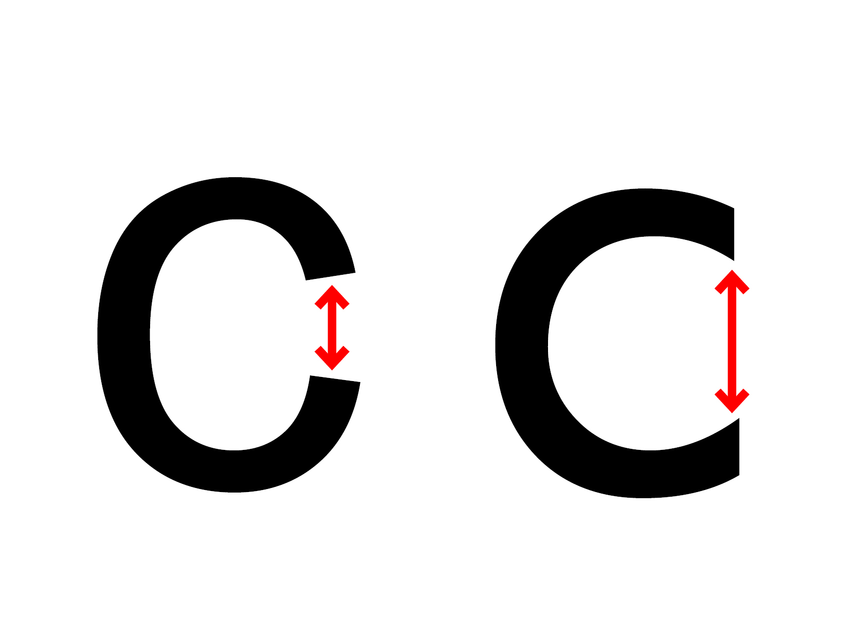 Aperture